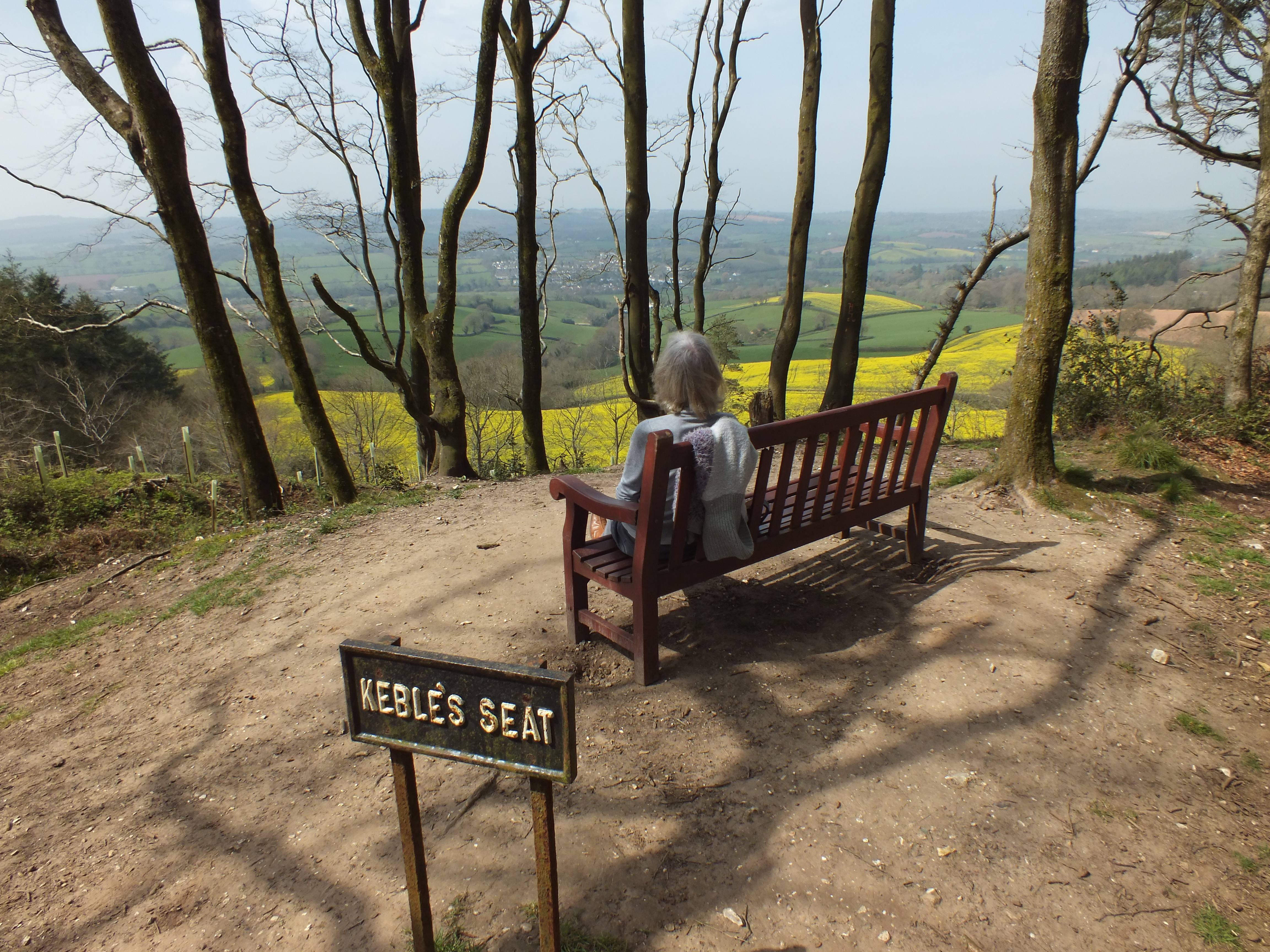 Kebles Seat shown in April 2015 at Bulverton Hill, Sidmouth, Devon.